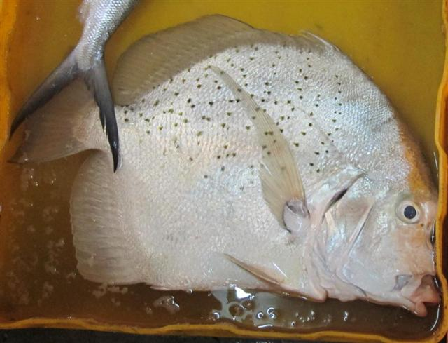 Drepane punctata collected in Taiwan.